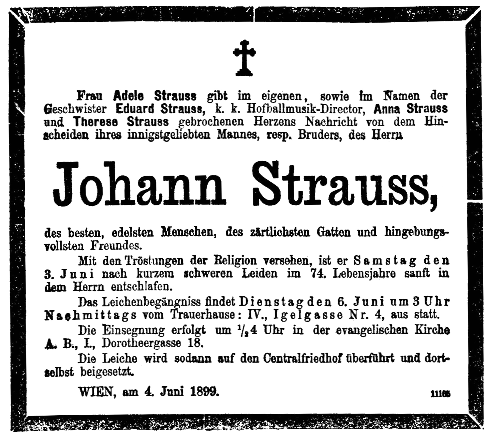 Death notice of Johann Strauss II